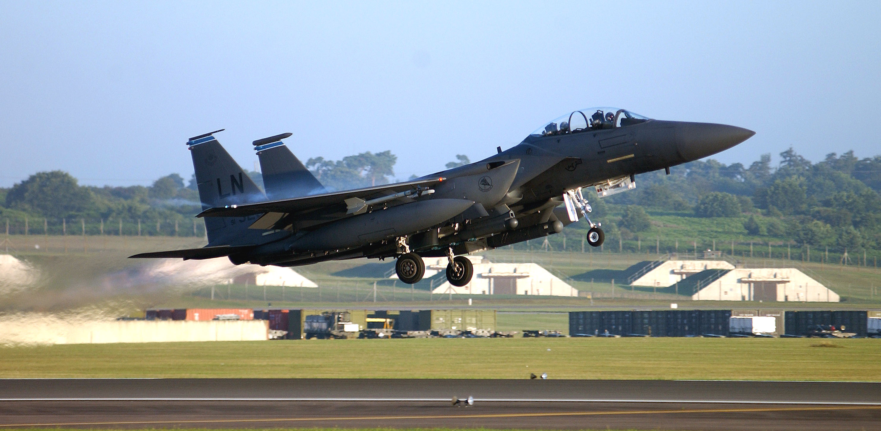 ROYAL AIR FORCE LAKENHEATH, England -- A 494th Fighter Squadron F-15E Strike Eagle takes to the sky en route to a deployment supporting Operation Iraqi Freedom, July 14. (U.S. Air Force photo by Staff Sgt. William Greer)